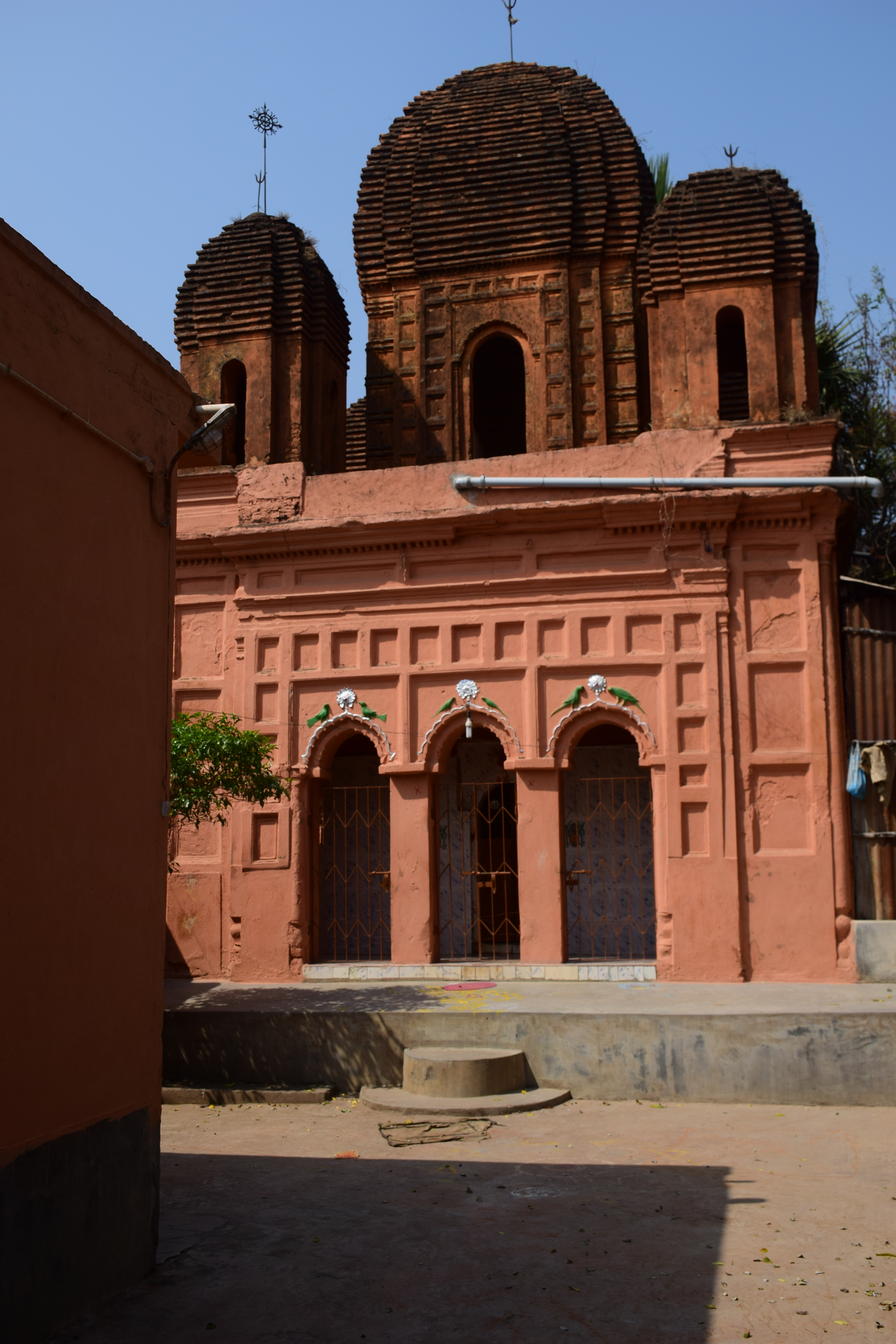 Pancha Ratna Lakshmi Janardan temple of Kar family at Mankar in Purba Bardhaman district, The temple is inside a closed enclosure with the name of Kar family descendants at the entrance.